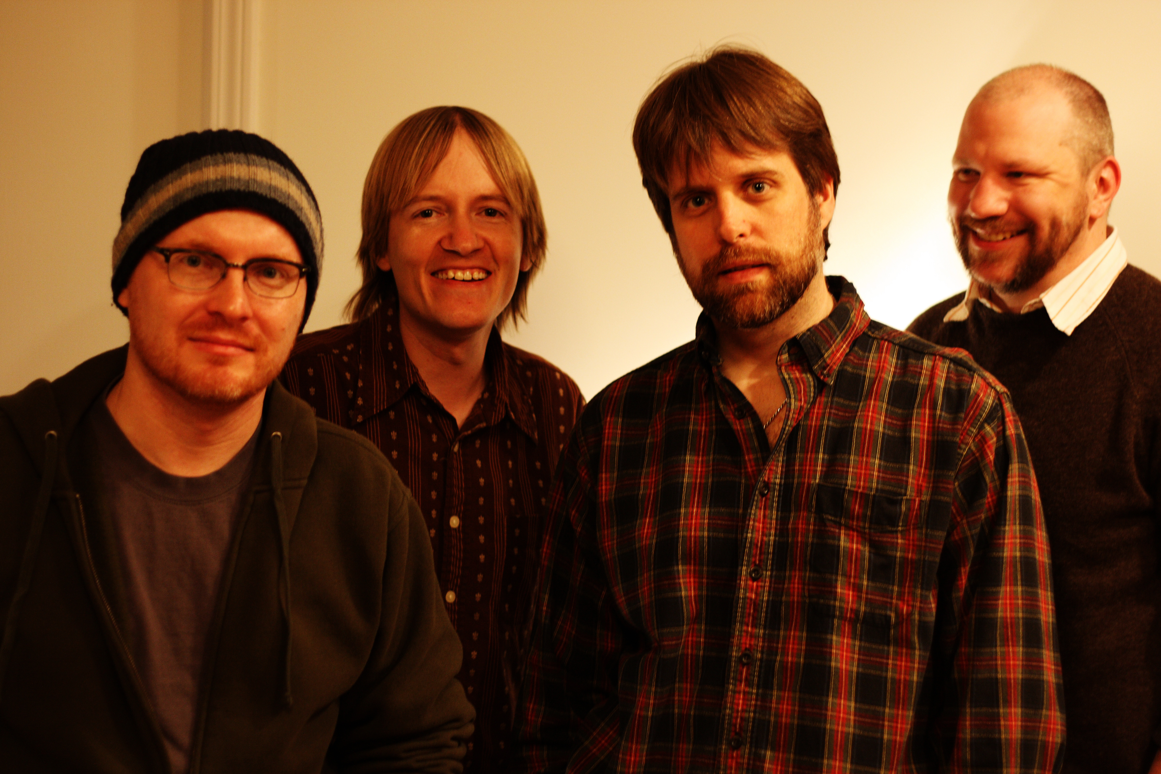 The Detroit-area based band Fidrych, taken in Plymouth, MI c. 2009. Photo: N. Porter